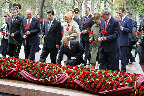 ALEXANDROVSKY GARDENS, MOSCOW. Laying flowers at the Tomb of the Unknown Soldier.